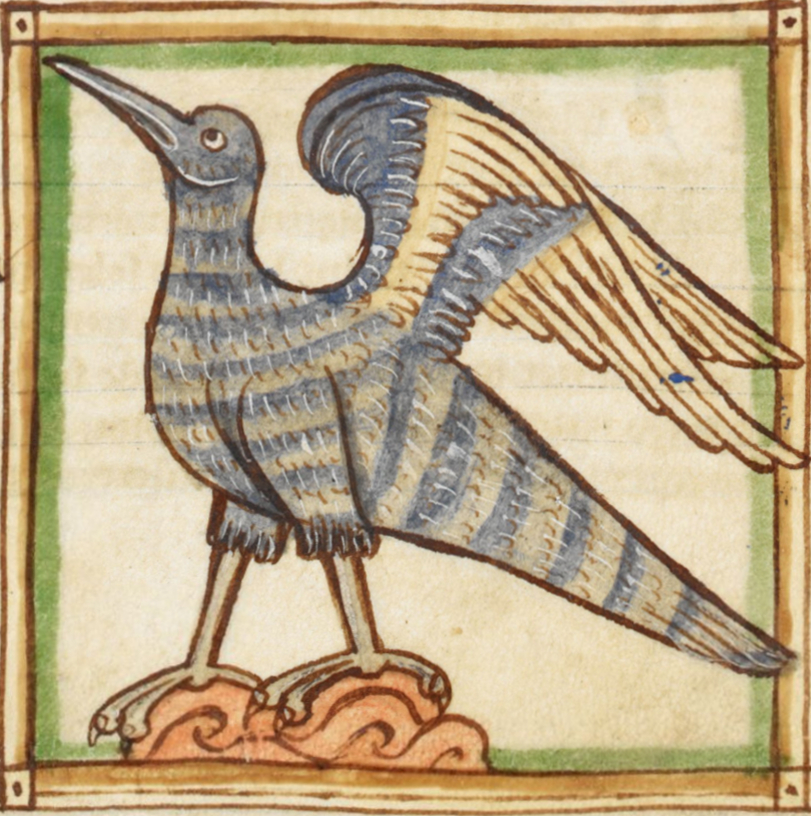 Hercinea - Bestiary Harley MS 3244, ff 36r-71v